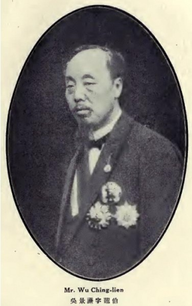 Wu Jinglian (1875-1944)